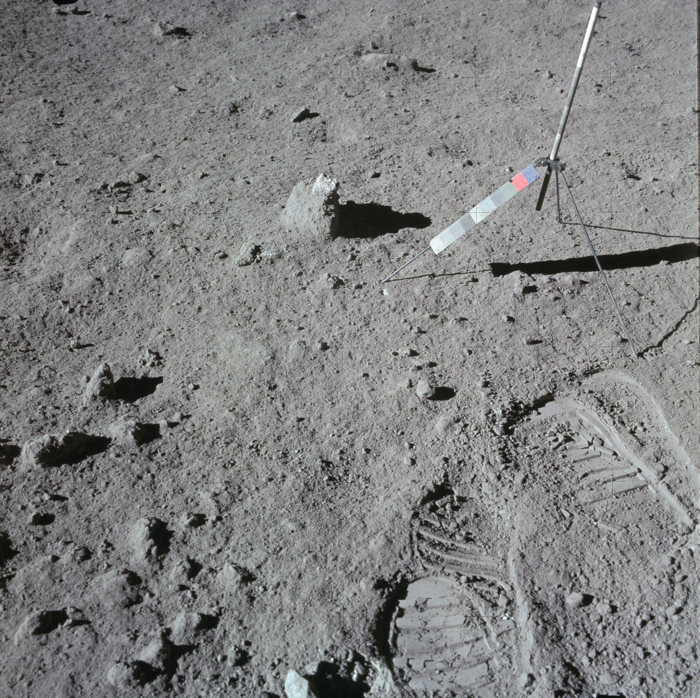 This is figure 3-20 of the Apollo 15 Preliminary Science Report (NASA SP-289, 1972), which has the following caption: The small white clast on top of the larger gray fragment located to the upper left of the gnomon is the "genesis" rock as the Apollo 15 crew found it on the lunar surface. It should be noted that this anorthositic fragment is not in situ but occurs as a clast within a breccia. This sample was collected at station 7, Spur Crater, on EVA-2.